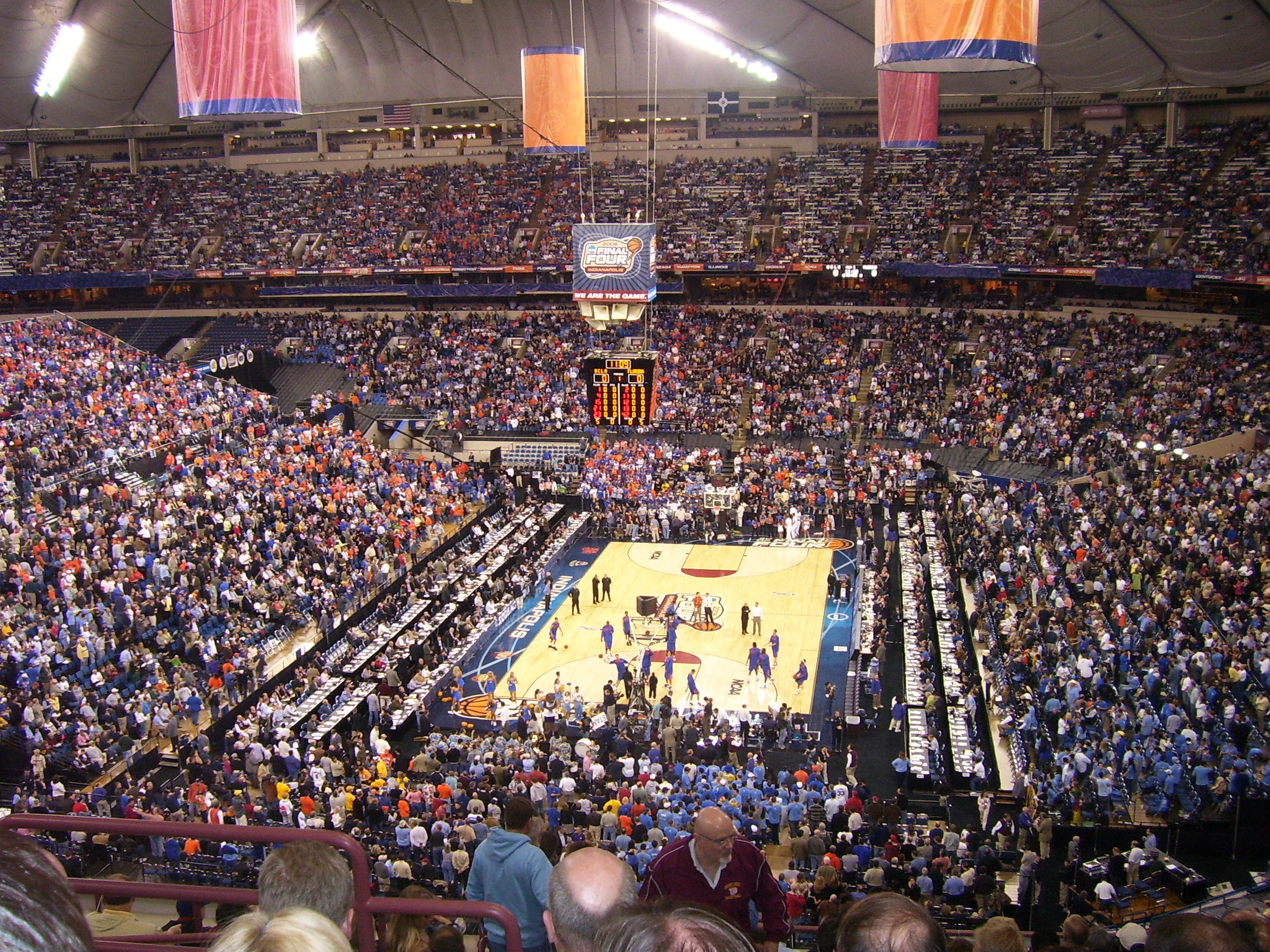 Warmup before the 2006 NCAA Men's Division I Basketball Tournament National Championship Game